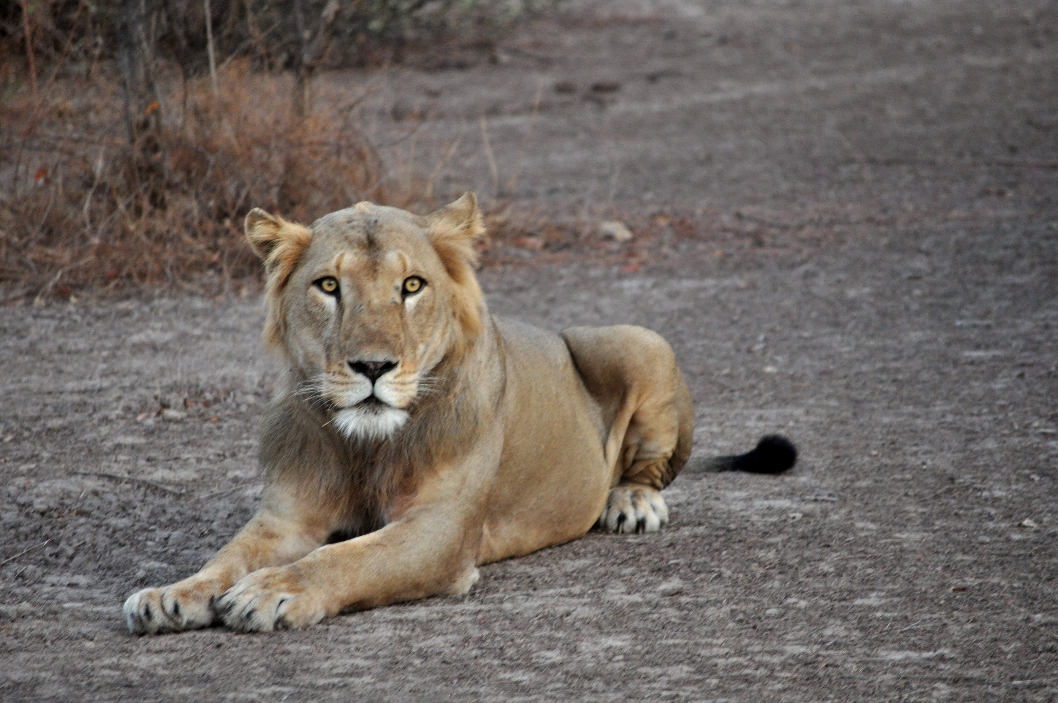 t It is about a lion photographed in the Pendjari park near the Bali pond of this protected area